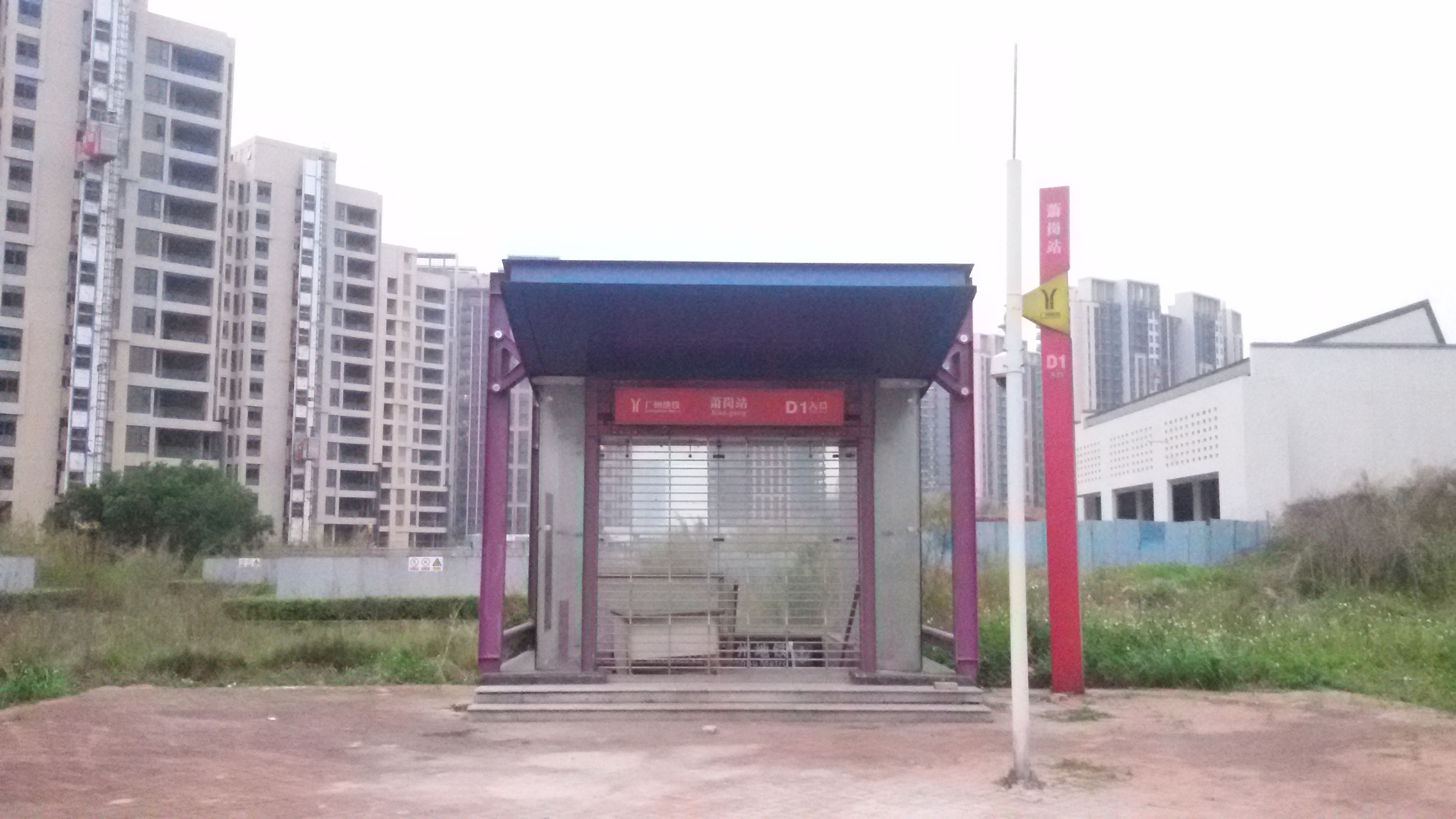 Exit D1 for Shiqi Station in Guangzhou Metro (Just After Dusk).